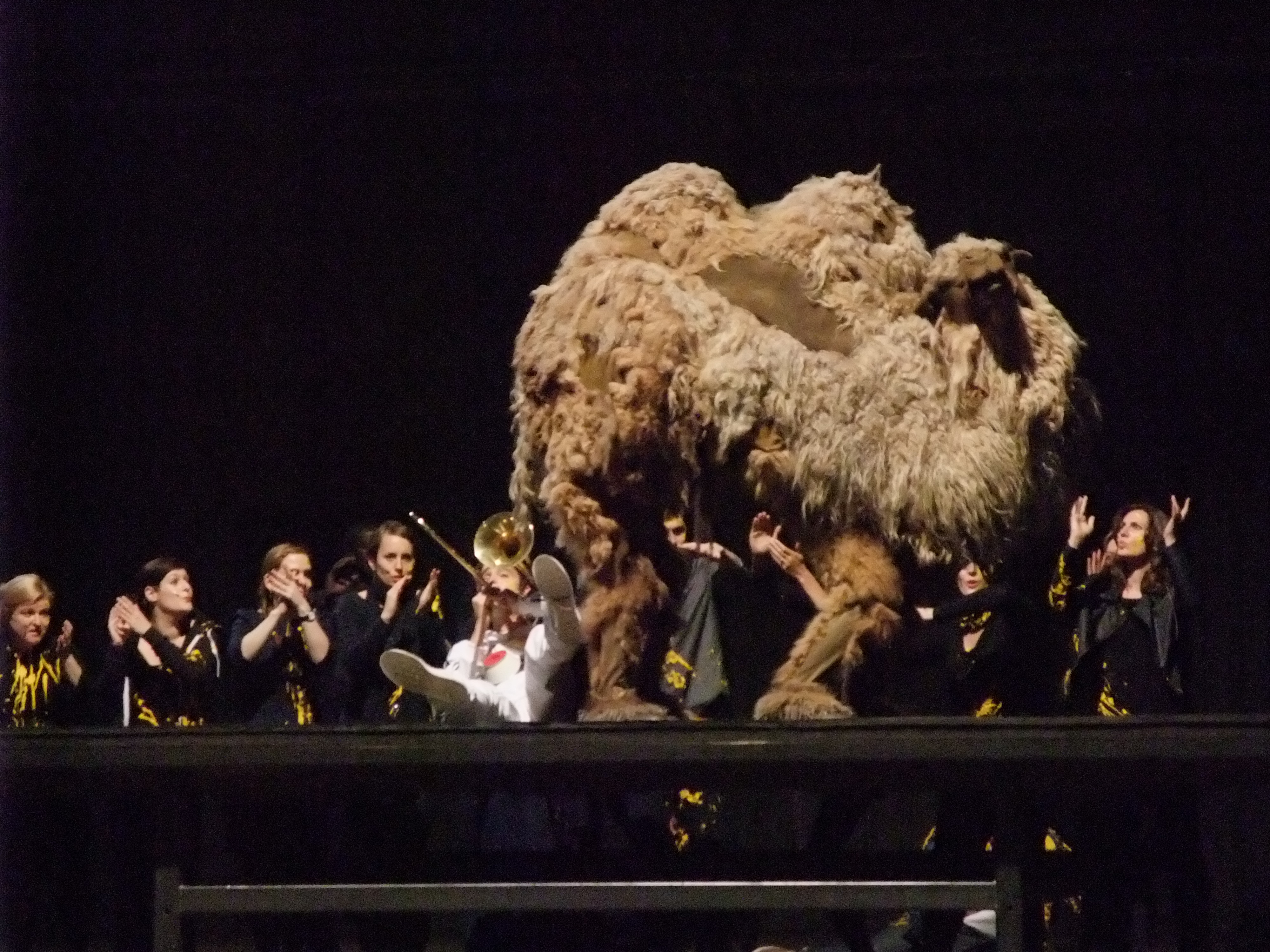 Moment 50 from scene 4, Michaelion, of Karlheinz Stockhausen's opera Mittwoch aus Licht, Birmingham Opera, Friday, 24 August 2012, Argyle Works, Digbeth, Birmingham. "A BULLFIGHT is musically demonstrated: The trombonist plays the matador, Lucicamel the bull. The choir claps, enthusiastically shouts. Lucicamel wins, sits down on the fallen trombonist". Photograph by Jerome Kohl.